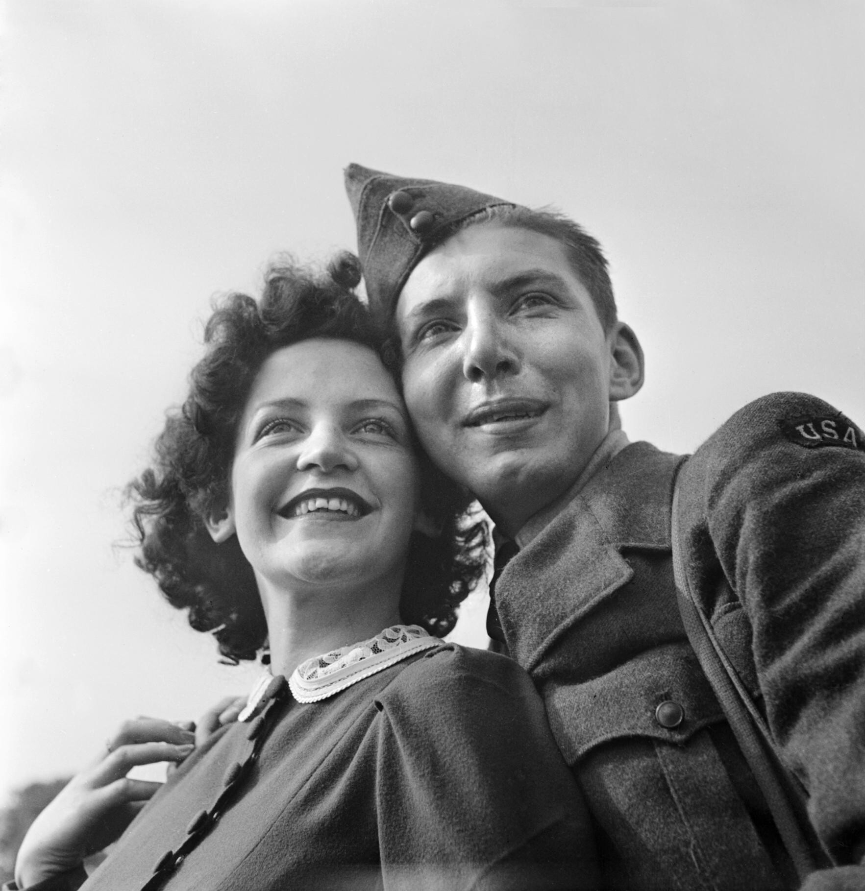 American Boy Meets British Girl- Love and Romance on the Home Front, Bournemouth, England, 1941 A head and shoulders portrait of the smiling happy couple. Robert Ames and Norah McMullen have just met and are clearly very happy together.